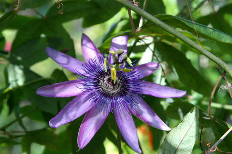 Passiflora ×kewensis 'Amethyst'